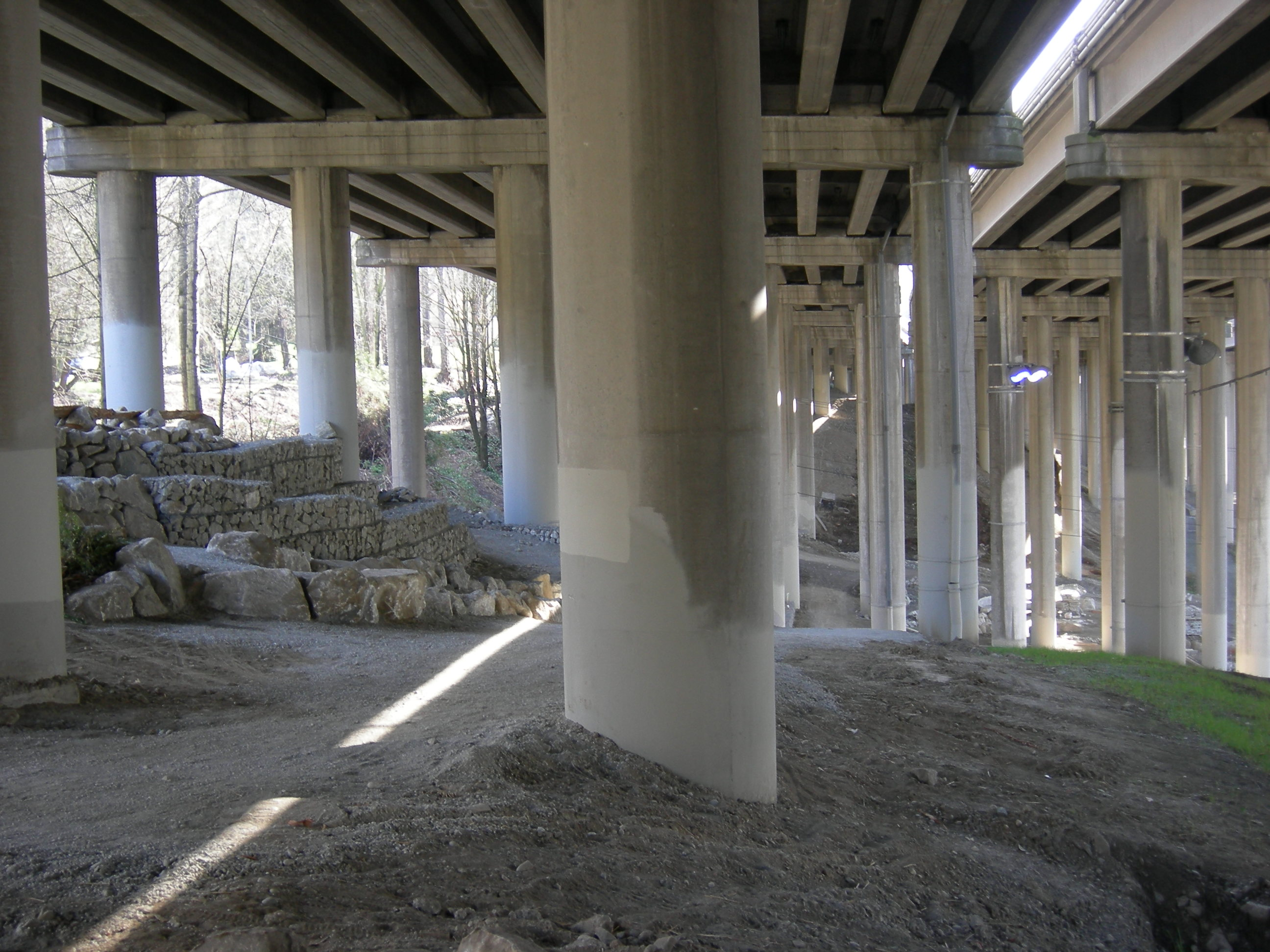 I-5 Colonnade, Seattle, Washington. This park, largely under Interstate 5, mainly features mountain bike trails.